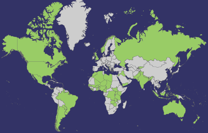 World map, with the member countries of the Global Organization of Parliamentarians Against Corruption shaded in green. Member states